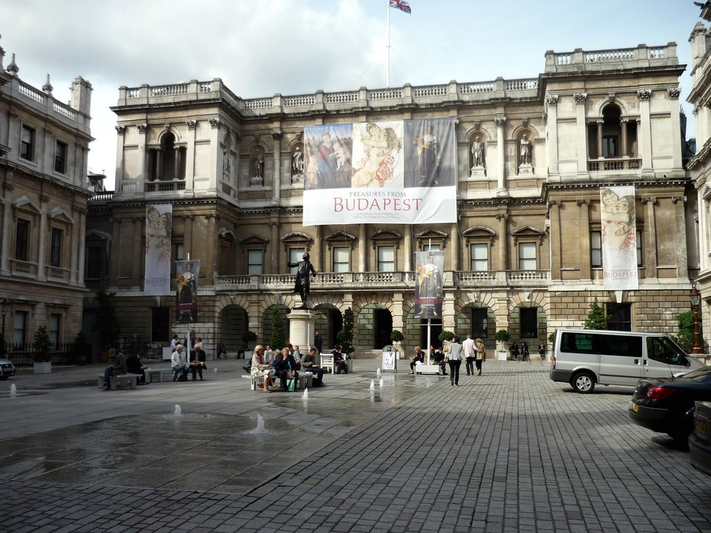 See title.